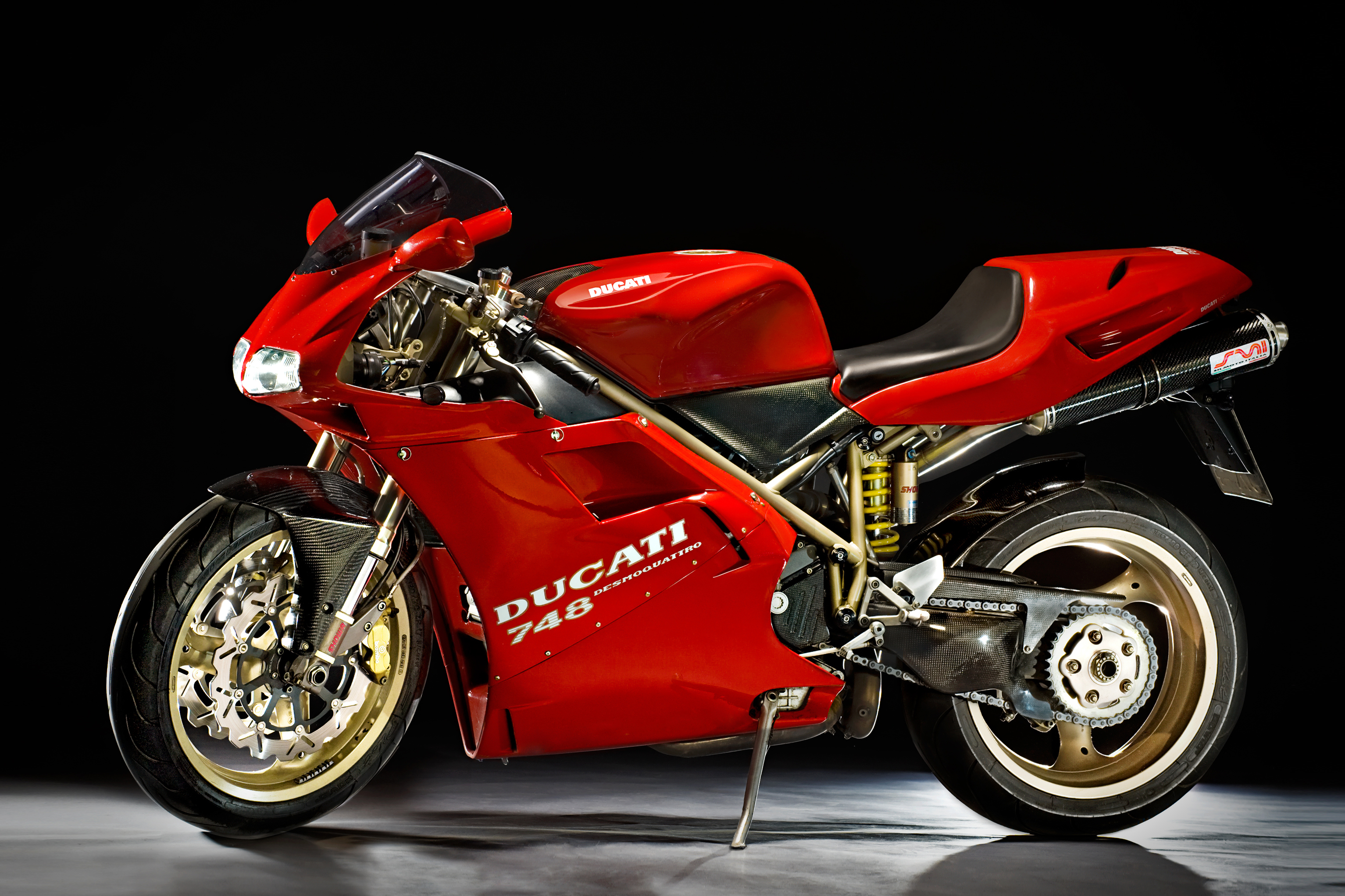 Ducati 748 with carbonparts. Exposed with 4 flash head and 2 electronic flashes